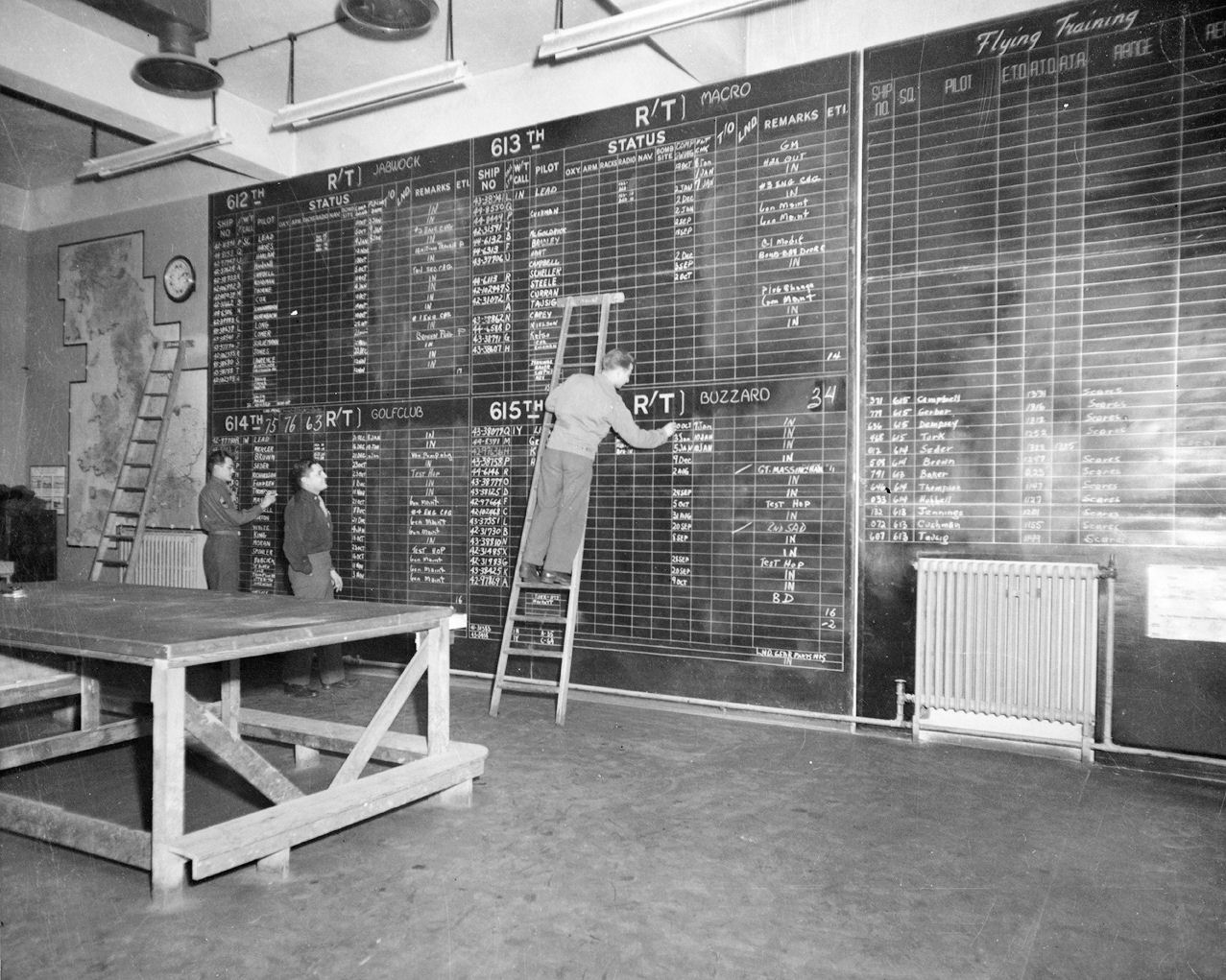 An airman of the 401st Bomb Group updates the operations board. 13 January 1945. Printed caption on reverse: '65620- 401st Bomb Group operations, 13 January 1945. England. A- Same as basic. US Air Force photo. Detachment-5, Hq AAA (MAC).'